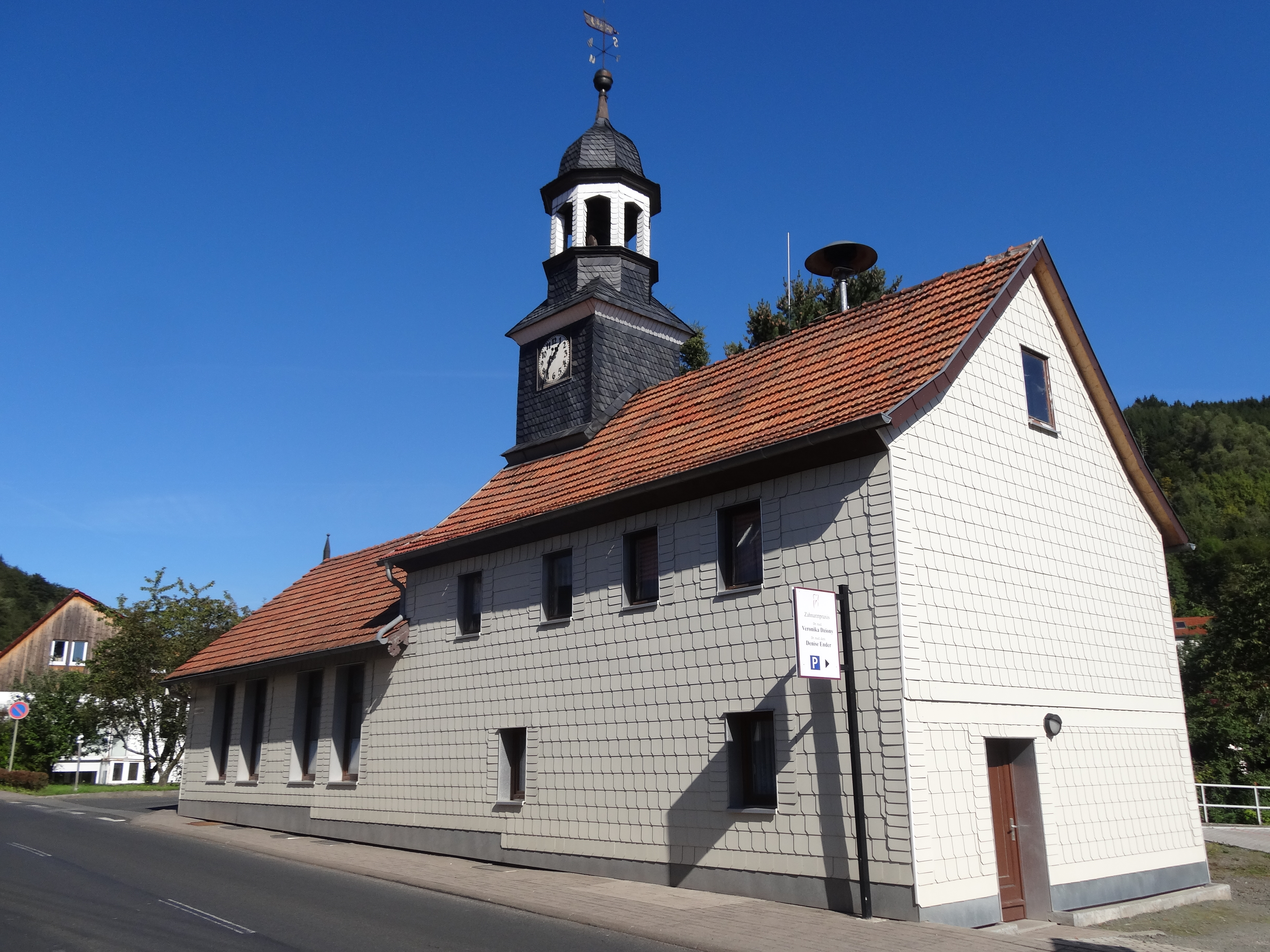 House in Hohleborn (Floh-Seligenthal), Thuringia, Germany